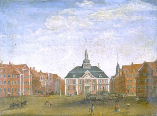 Gammeltorv with the old City Hall and the Caritas Well